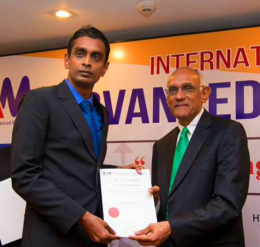 Dinesh Abeywickrama with Prof. Parasuraman at International Conference on Advanced Markerting